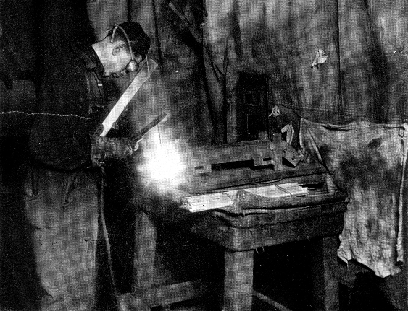 Acetylene welding on pressed steel.